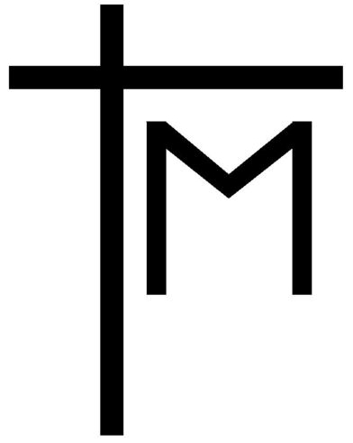 An image of the Marian Cross created in Microsoft Paint.